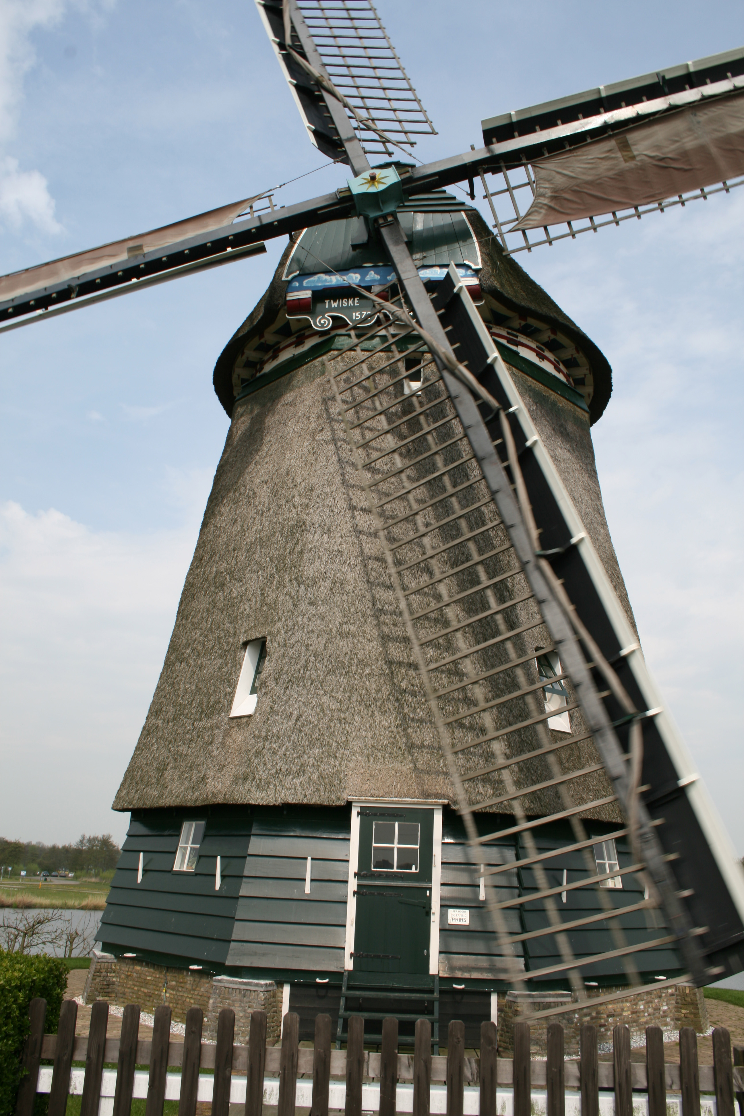 Windmill Twiskemolen in nature area Het Twiske in Noord-Holland, The Netherlands.